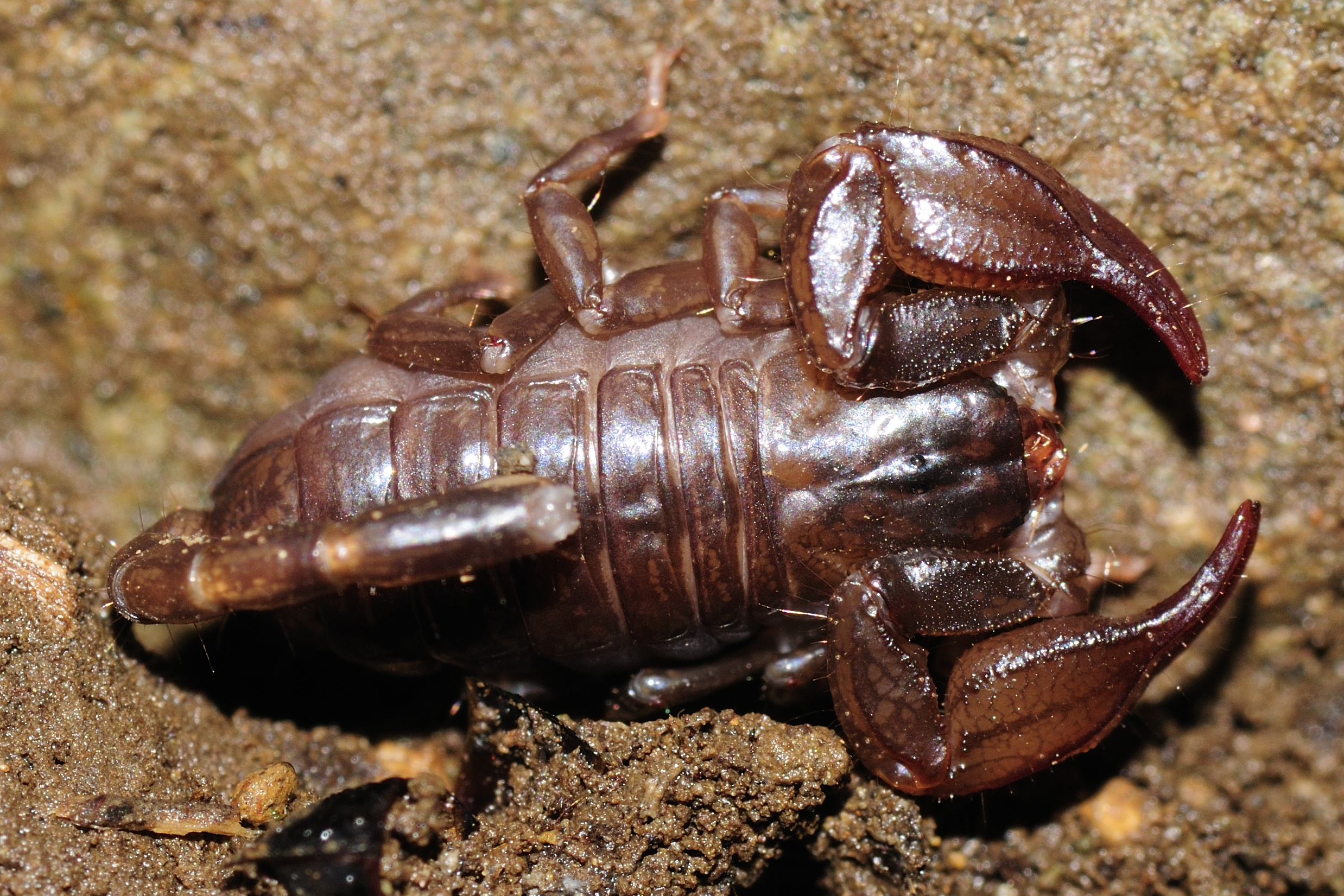 Euscorpius mingrelicus in the Mtirala Nationalpark in Georgia. Habitat: Below a stone on a forested flank of a river. Roughly 30 meters above the river.